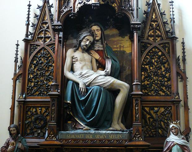 Church in Weinhaus (Vienna), Pieta.